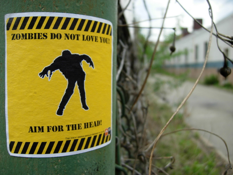 Acey Duecy wants you to survive any and all zombie attacks that may come your way. He posts valuable information in key locations, so that those on the run can benefit from his helpful advice. He does this because he cares. That, and if you survive, it's one less zombie he has to take care of.